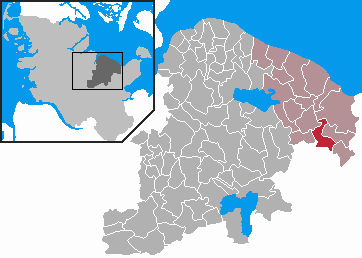 This map shows the area of the Gemeinde (municipality) Högsdorf in the Kreis (district) Plön, Schleswig-Holstein, Germany.